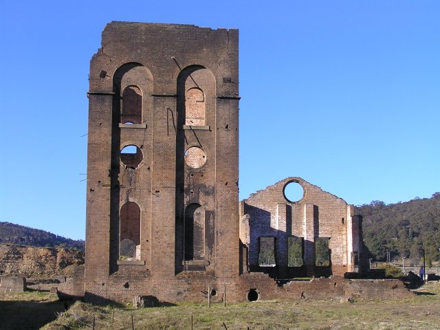 Lithgow Blast Furnace: Built in 1906-7, the Blast Furnace was the sole producer of iron in Australia for the first seven years of its life. It remained a major producer for the next thirteen, until its closure in 1928.